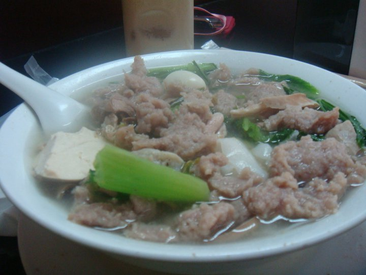 A famous noodle/vermicelli soup which is supposed to be derived from Chinese food in Myanmar.မြန်မာဘာသာ: ကြေးအိုး